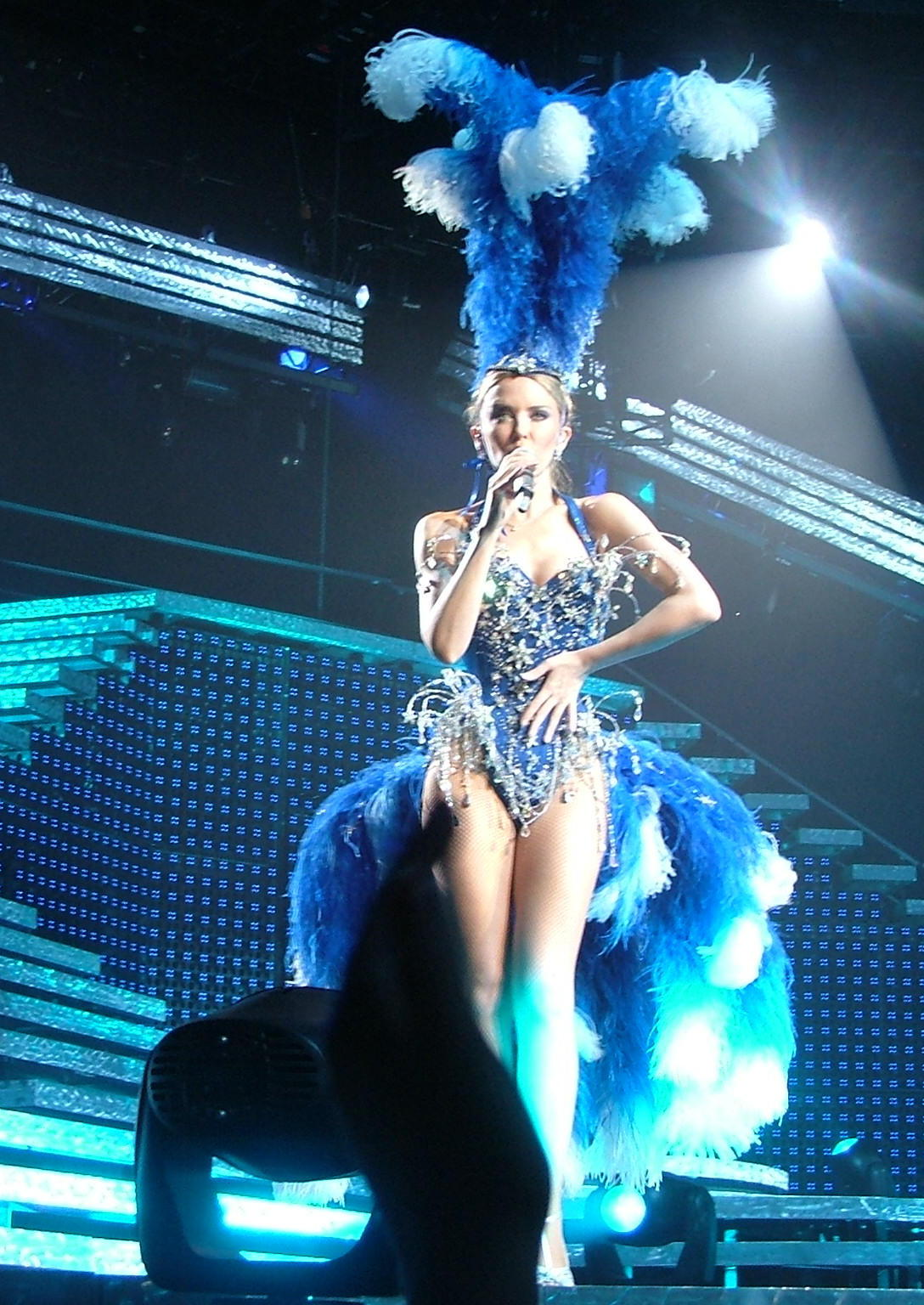 Kylie Minogue live in Paris - The Beginning - April 20th 2005